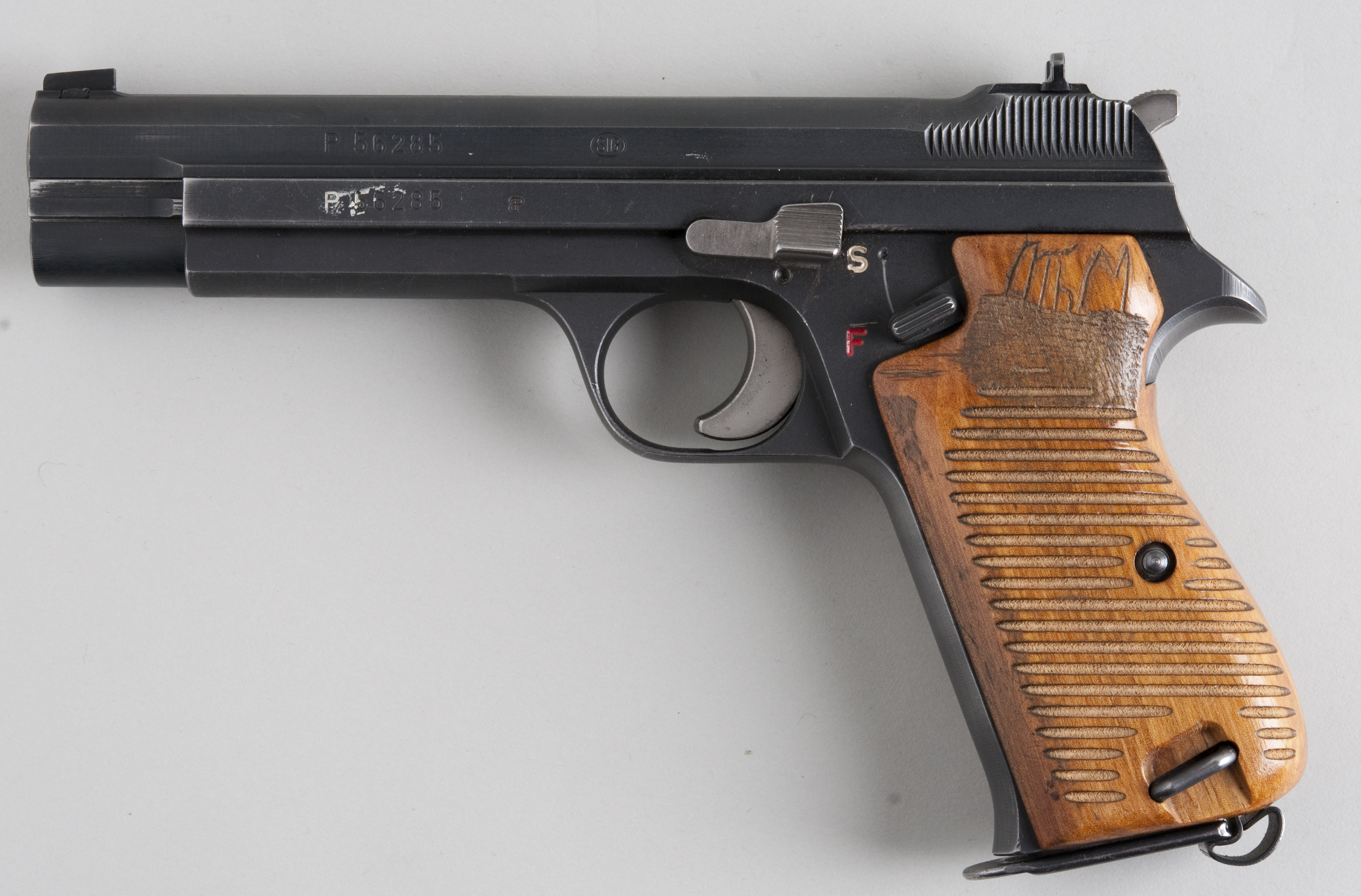 SIG 210-1 (not 210-2 as suggested by filename, P210-2 begins with serial nr. P 59071, in 1966) serial nr. P 56285, this is a civilian or police model, made c. 1962/3. (serial nrs. P 55931 to P 55980 and P 56771 to P 56811 were two batches delivered to Zurich cantonal police on 12 Sep 1962 and 5 Feb 1964, respectively; the intervening nrs. 55981–56770 were either sold to private customers or to other Swiss police forces).[1] The designation "P210" was introduced in 1957 (beginning with serial nr. P53911), earlier models were marked "SP47/8".